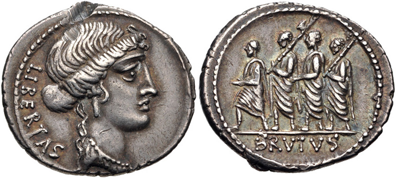 Q. Servilius Caepio (M. Junius) Brutus 54 BC. AR Denarius (20mm, 3.64 g, 6h). Rome mint. Head of Libertas right / The consul L. Junius Brutus walking left between two lictors, each carrying axe over shoulder, and preceded by an accensus. Crawford 433/1; Sydenham 906; Junia 31. Good VF, toned, scrape at top of Libertas’ head, light scratch on her neck.